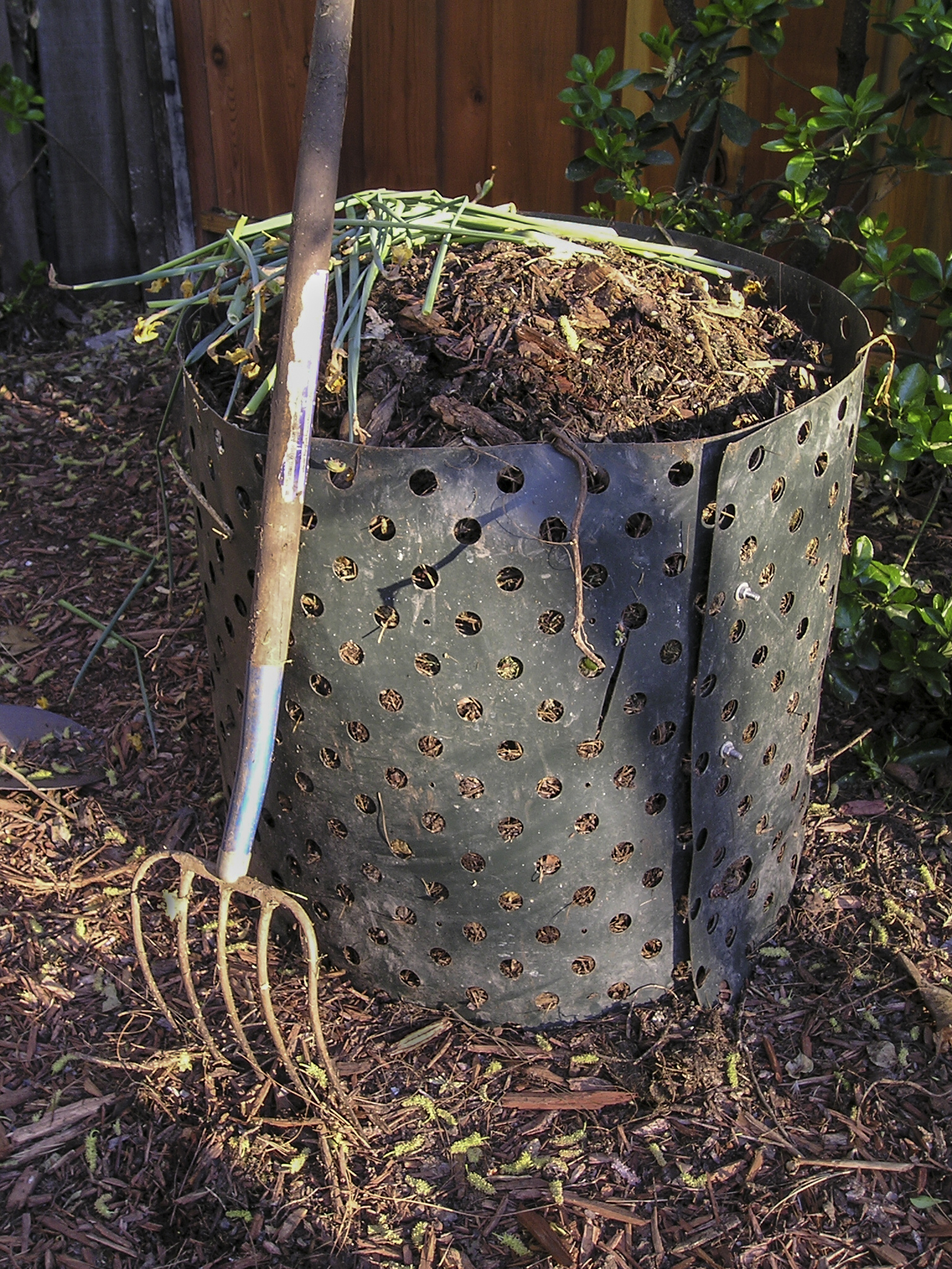 Commercial tube compost bin; a simple way to hold a compost pile neatly in one place